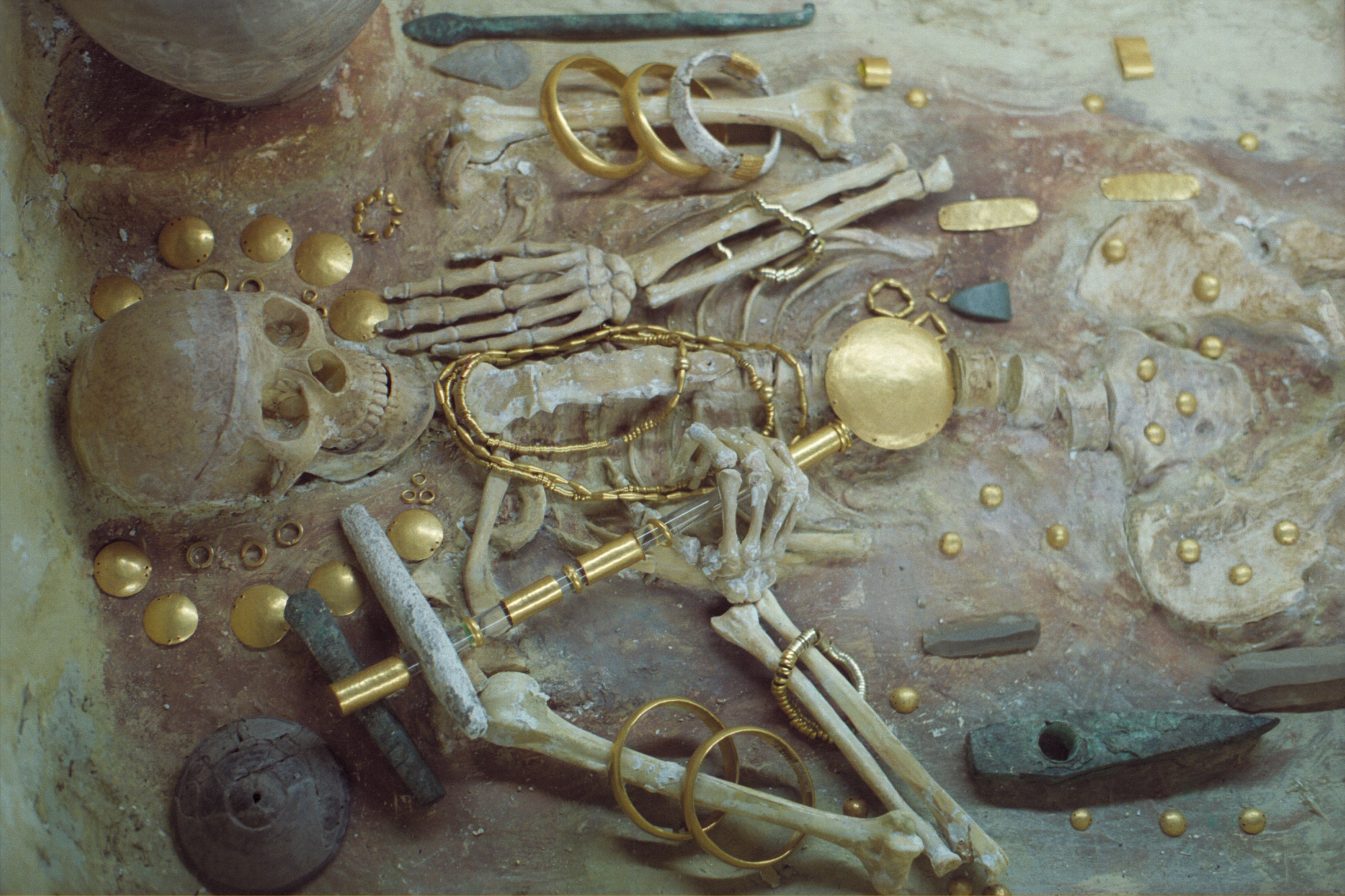 Burial with skeleton and gold treasure. Burial place near Varna. Chalcolithic, 4600-4200 BC. Varna Archaeological Museum.